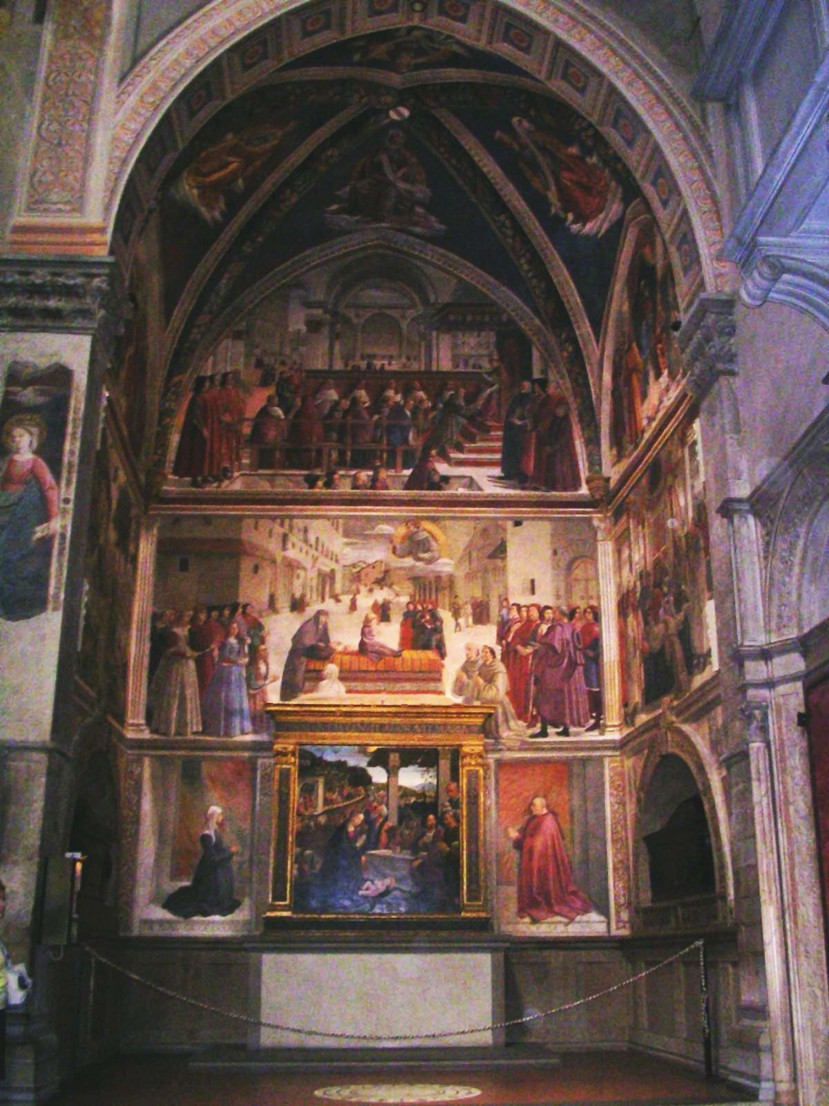 Frescos by Domenico Ghirlandaio and Filippino Lippi, in the Cappella Sassetti ("Sassetti chapel"), in Santa Trinita church, Florence (Italy).